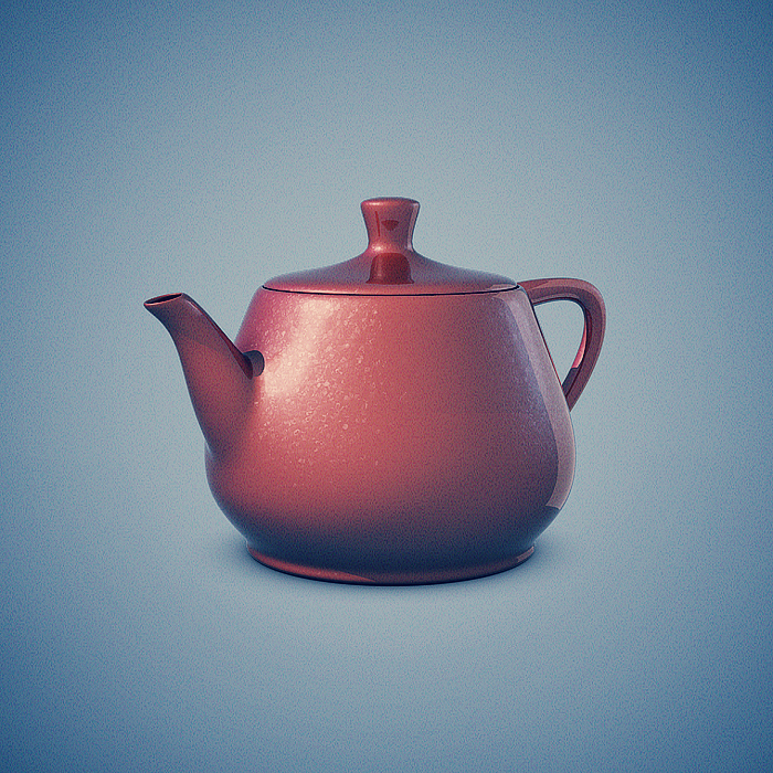 CG image of the Utah Teapot